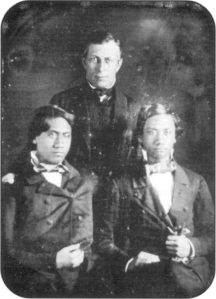 Dr. Gerrit P Judd with Lot Kamehameha and Alexander Liholiho, 1850. 1/4 plate daguerreotype, courtesy of the Hawaii State Archives